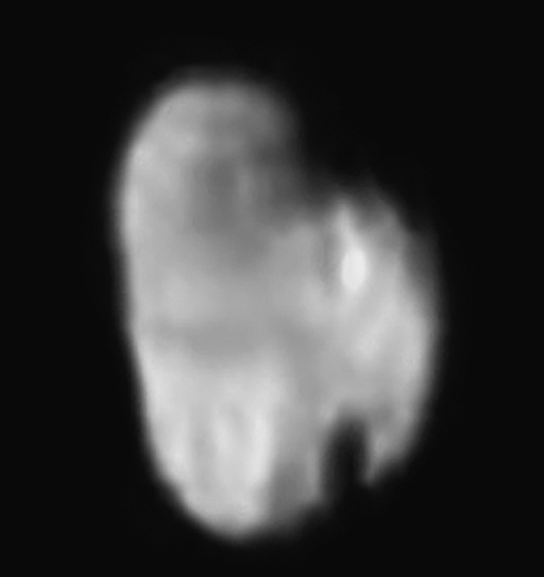 Pluto’s small, irregularly shaped moon Hydra (right) is revealed in this black and white image taken from New Horizons’ LORRI instrument on July 14, 2015 from a distance of about 143,000 miles (231,000 kilometers).